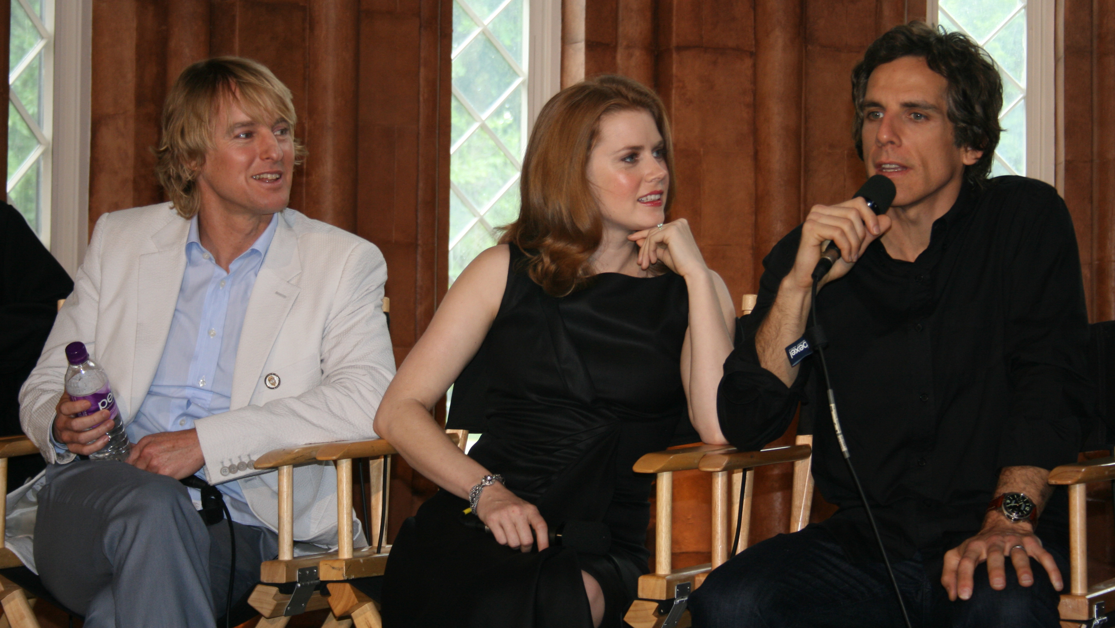 Owen Wilson, Amy Adams, and Ben Stiller at a panel promoting Night at the Museum: Battle of the Smithsonian.